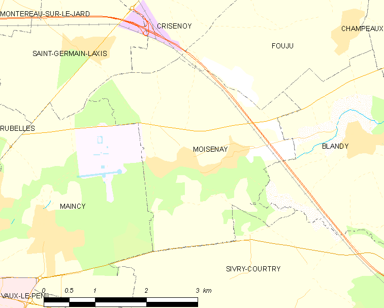 Map of French municipality Moisenay